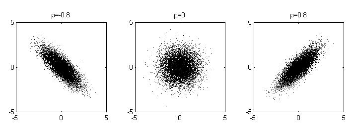 Samples from a bivariate normal distribution for different rho parameters.